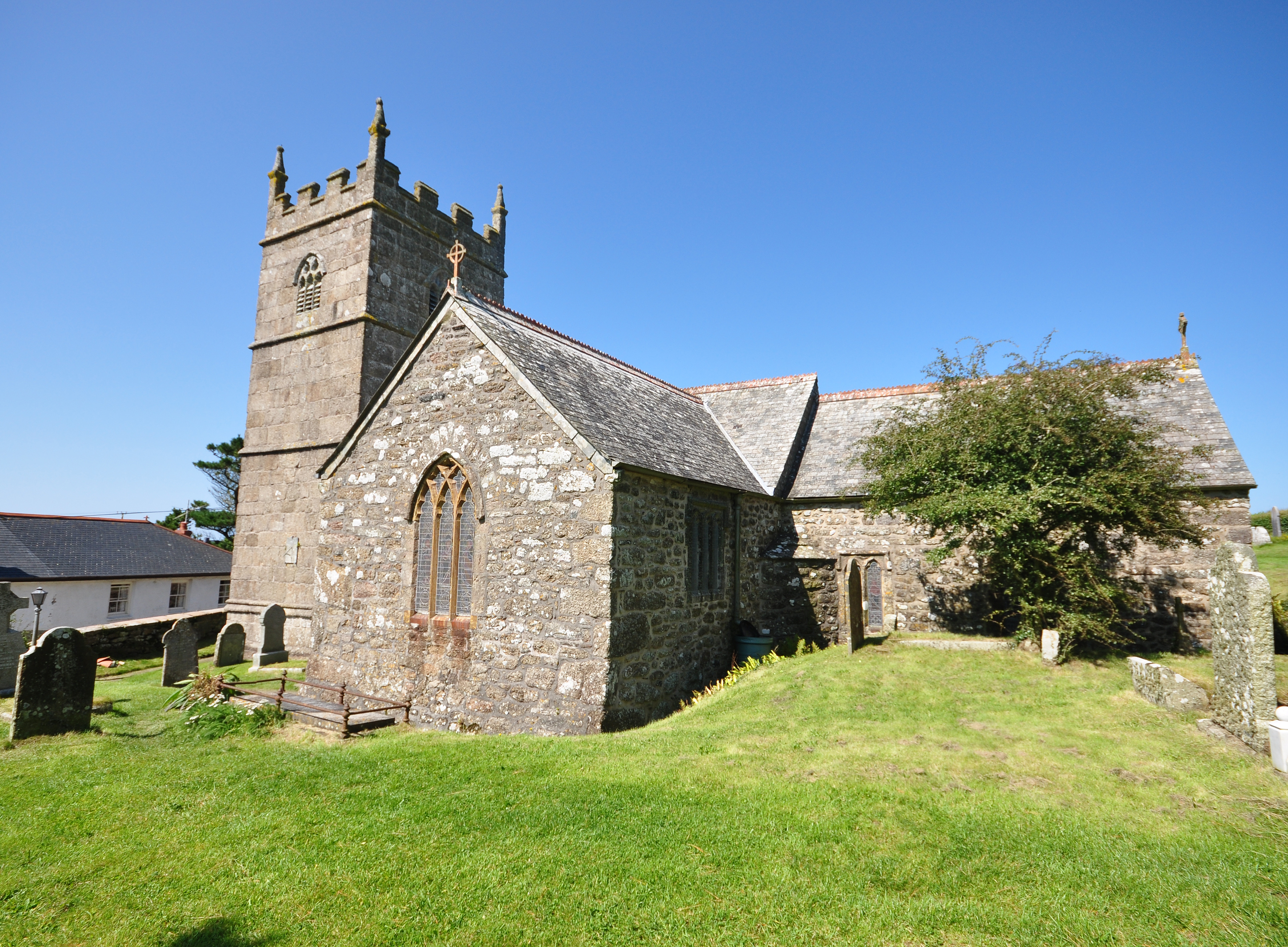 The parish church in Zennor, Cornwall